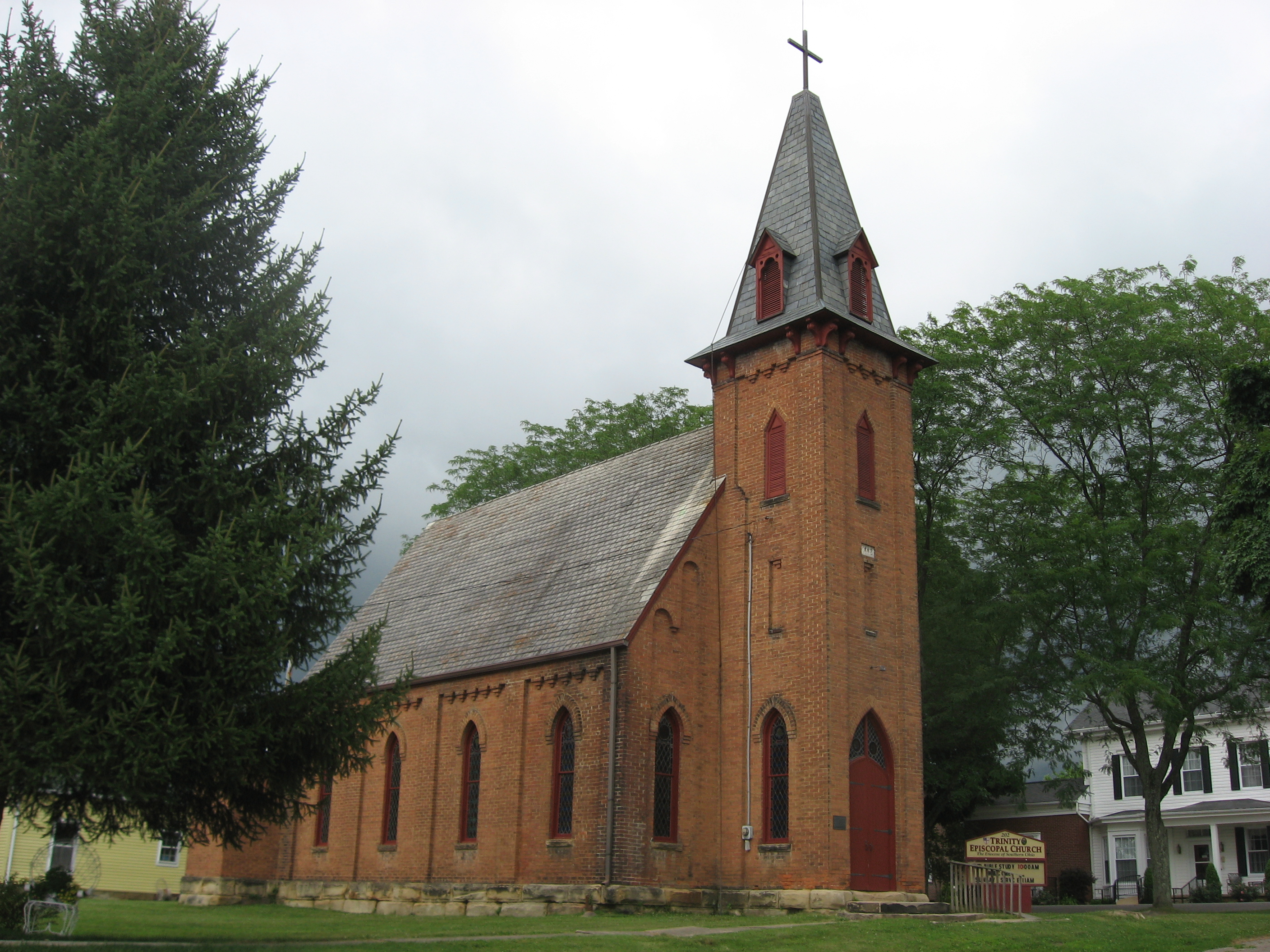 Front and southern side of Trinity Episcopal Church, located on the southwestern corner of the intersection of Sugar and High Streets in McArthur, Ohio, United States. Built in 1882, it is listed on the National Register of Historic Places.